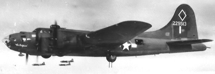 B-17F 42-29513 "El-Diablo" saw extensive service with the 346th Bombardment Squadron between 23 February and 11 December 1943. It completed 114 missions, and was deemed "War Weary". It was stripped of its armament and convened into a Weather ship for the 304th BW at Cerignola, Italy (USAAF Photograph)